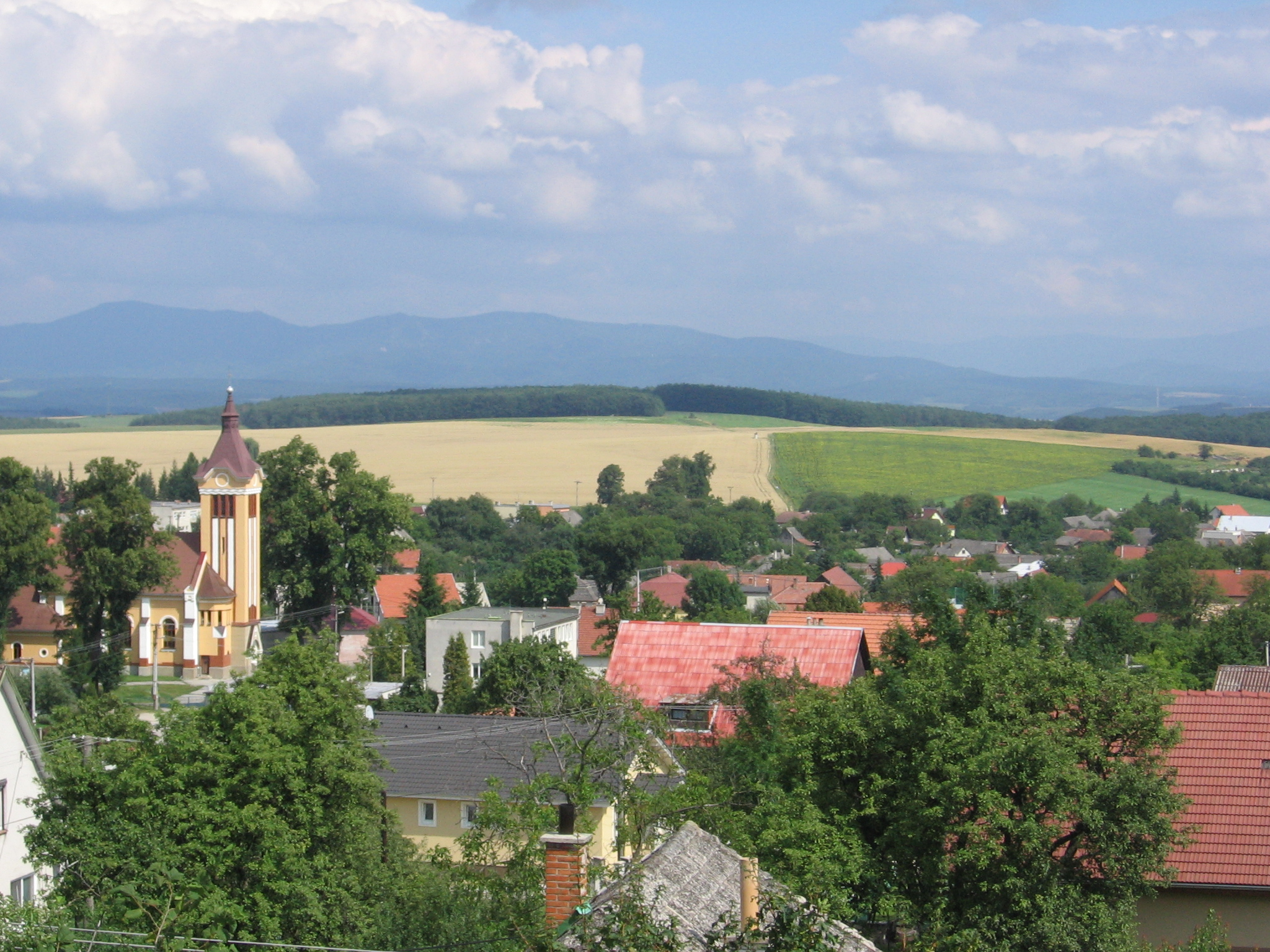 View of the village Dubodiel in the Trenčín district, Western Slovakia.